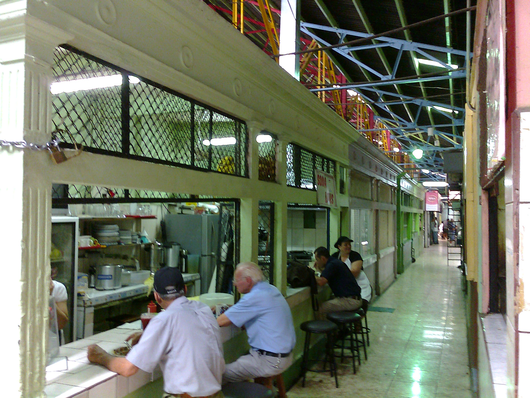 Alajuela 2012